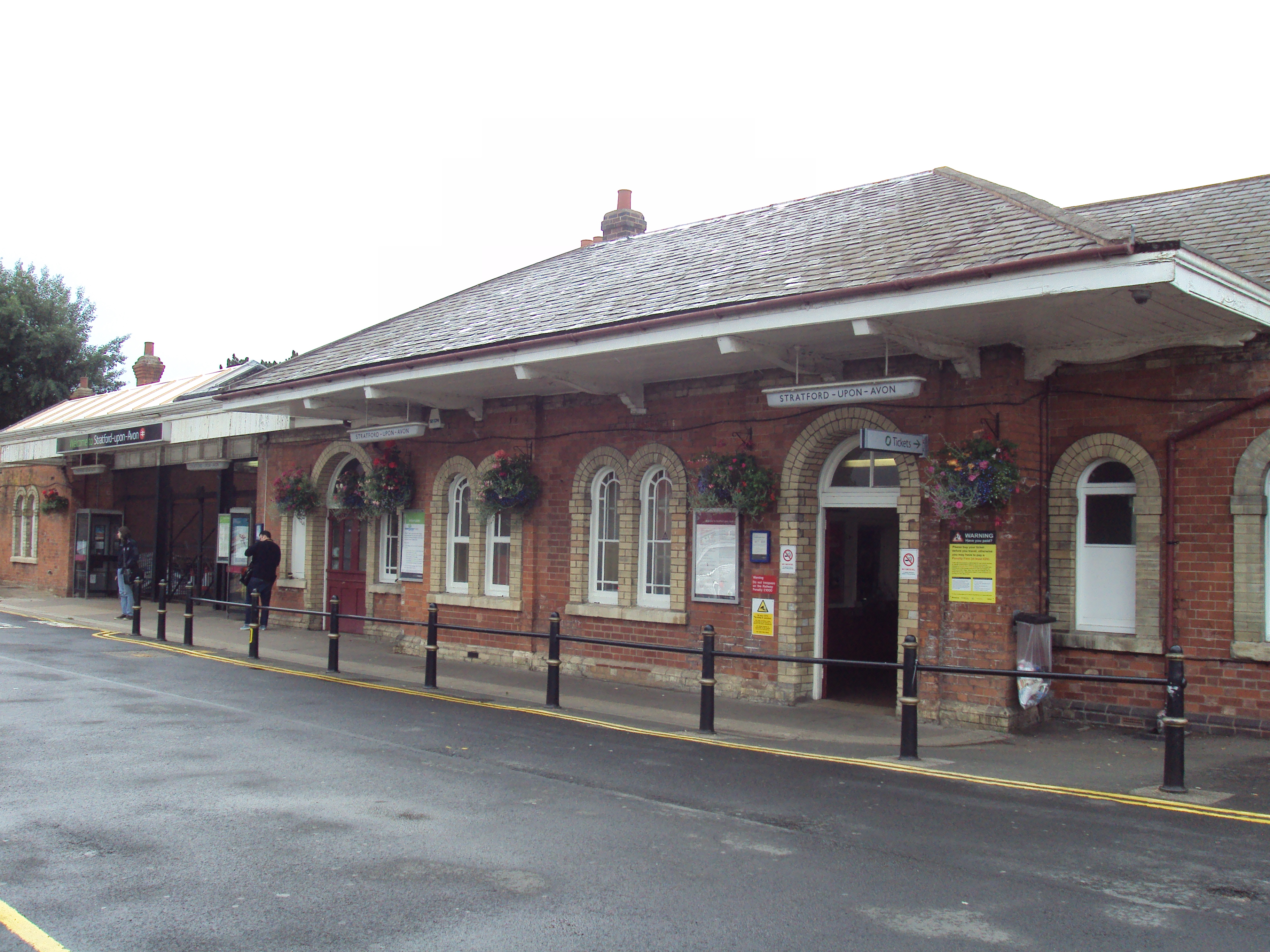 Frontage of Stratford-upon-Avon railway station, England.